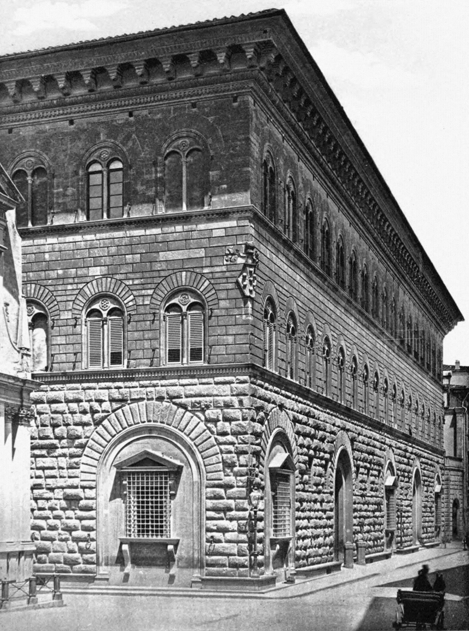 Palazzo Riccardi, from "Character of Renaissance Architecture"